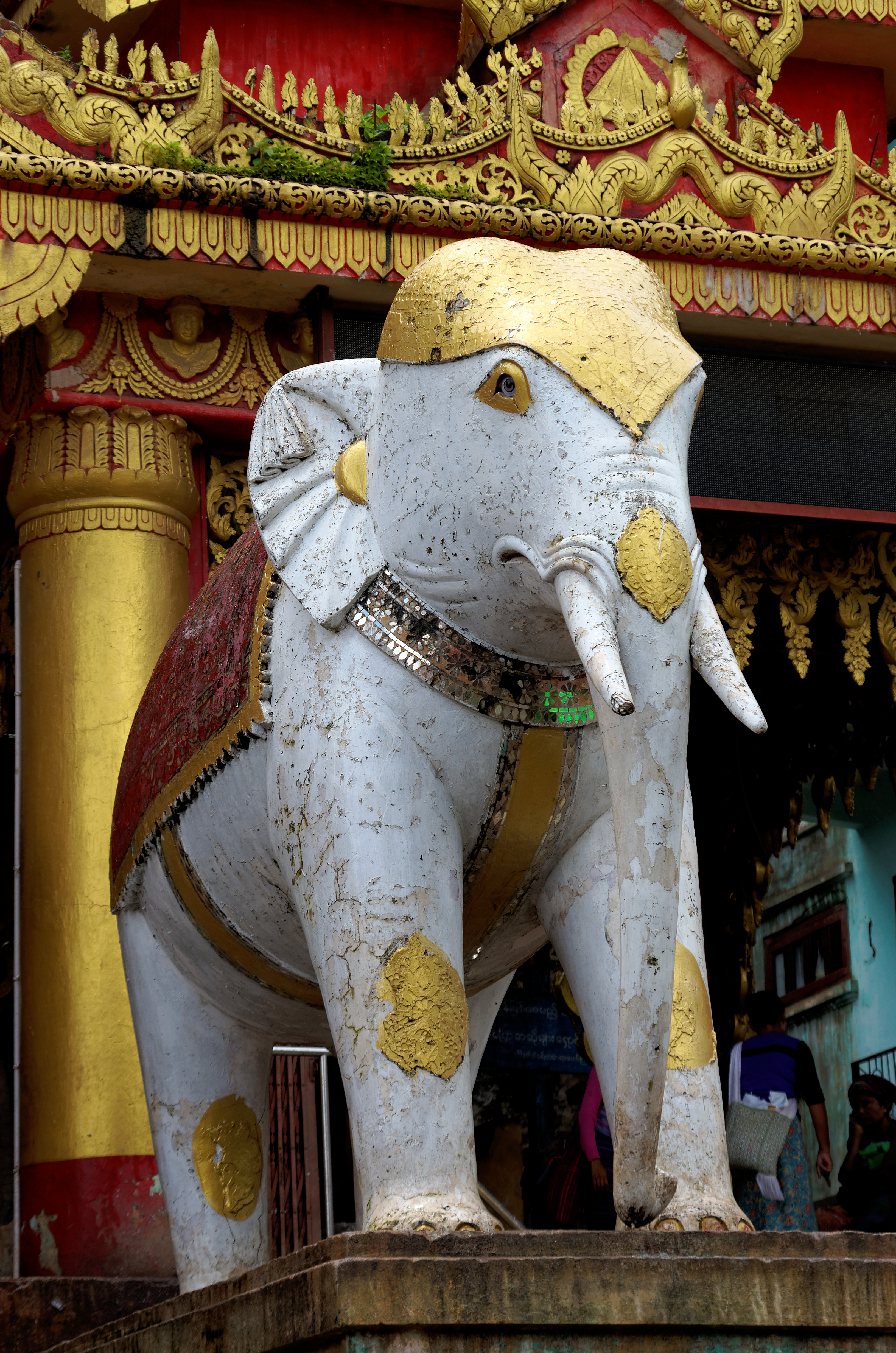 White elephant at the entrance to Mount Popa Monastery in Myanmar